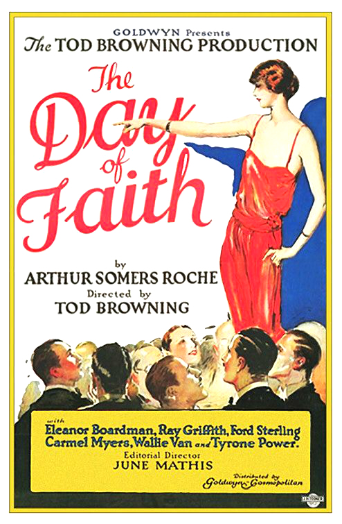 Poster for the American drama film The Day of Faith (1923). There are no copyright marks on the item, which can be seen at the link. At bottom is a logo for the Tooker Lithograph Company--they printed the poster.